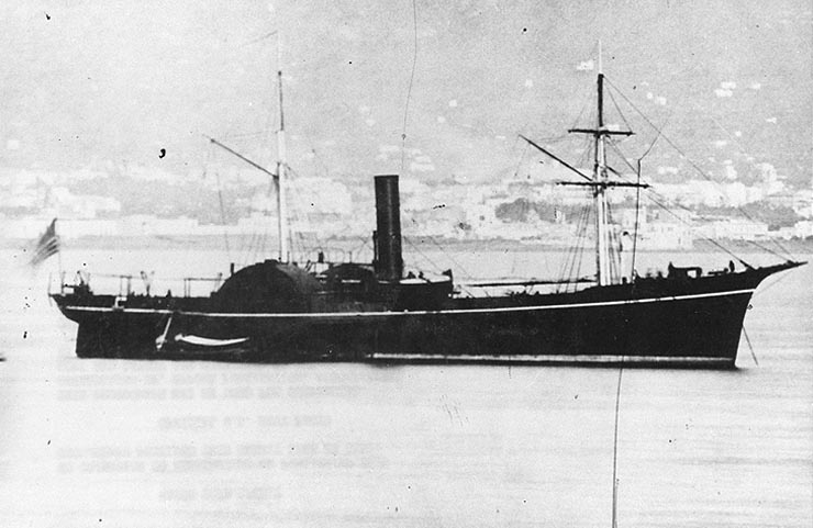 Removed caption read: Photo # NH 57276 USS Augusta in European waters, circa 1866-67